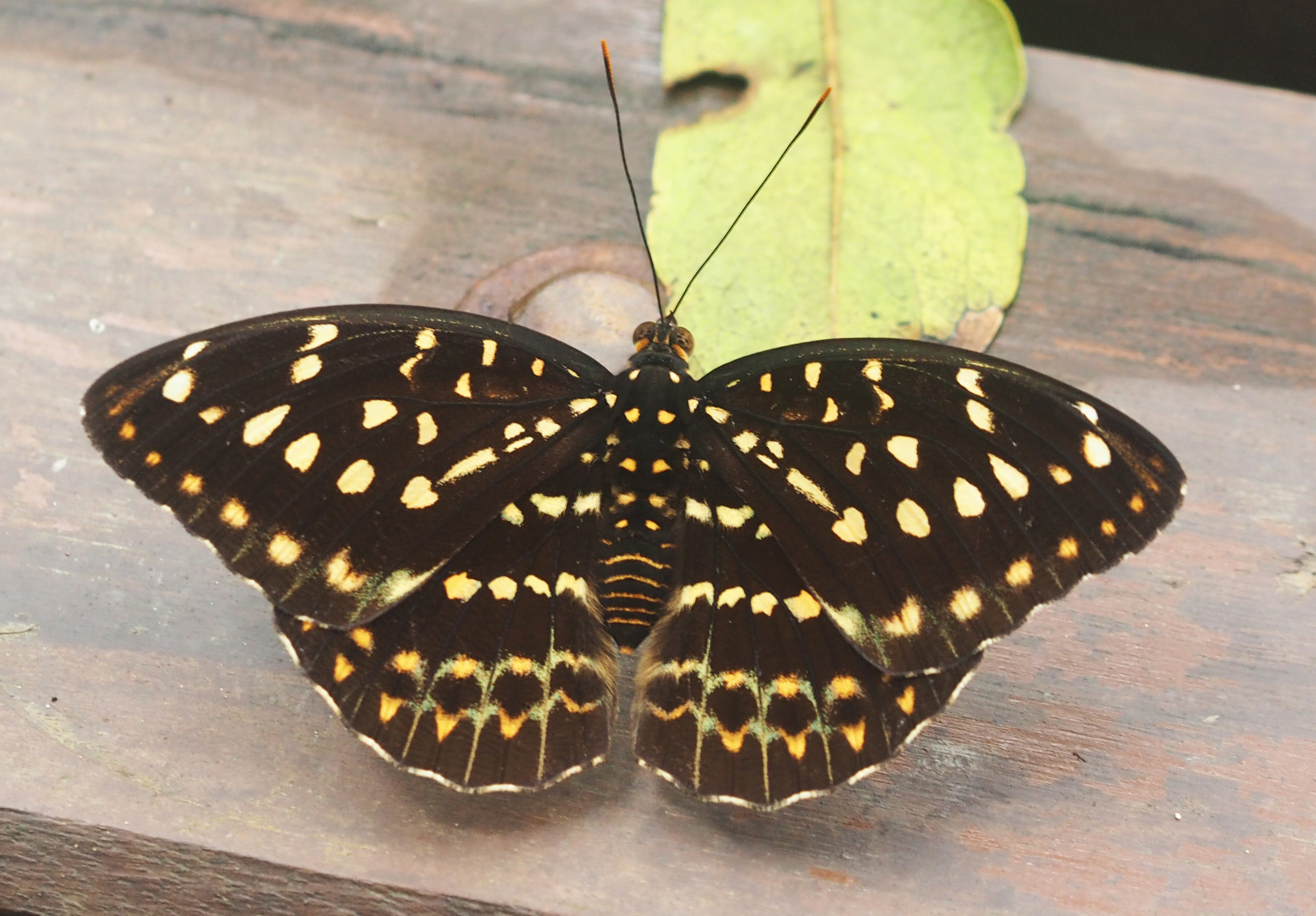 Female common archduke butterfly from Lanta Island, Krabi, Thailand